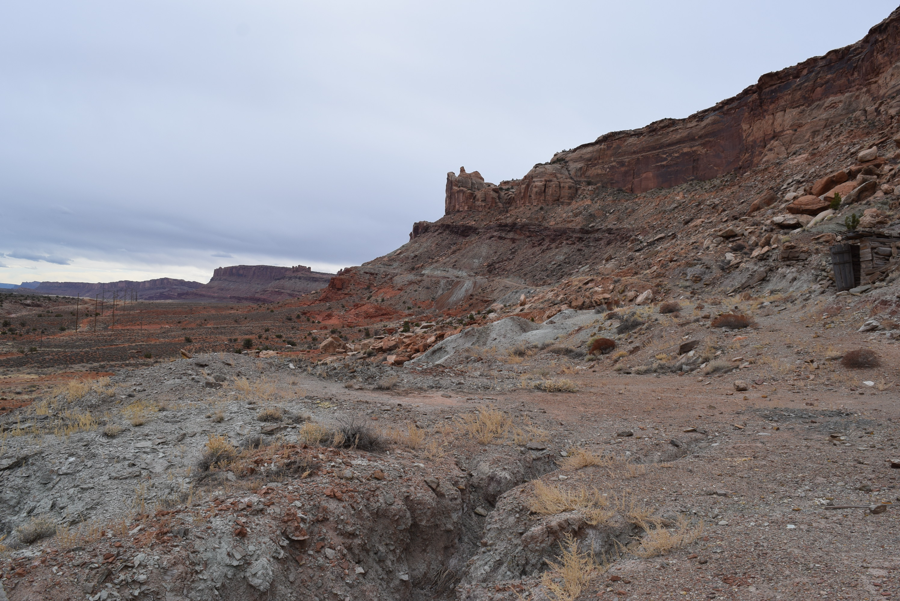 Picture of mine tailings in the desert landscape, close to Moab, UT, in the Seven Mile Canyon area, Grand County. Picture contains an old shed of the Shinarump Mine to the right edge.